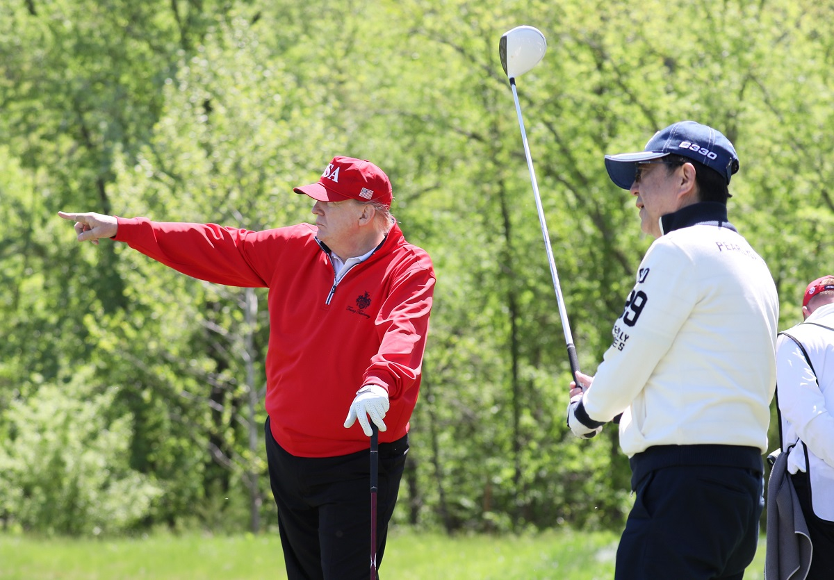 Shinzo Abe and Donald Trump playing golf